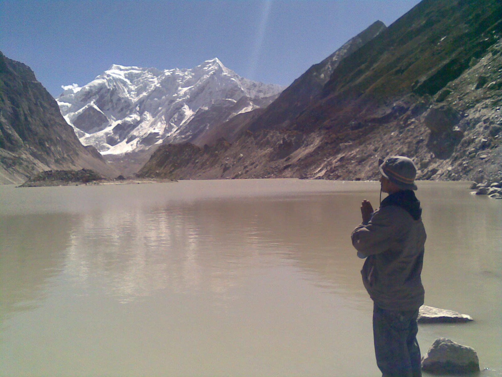 Praying at Cho-Rolpa lae